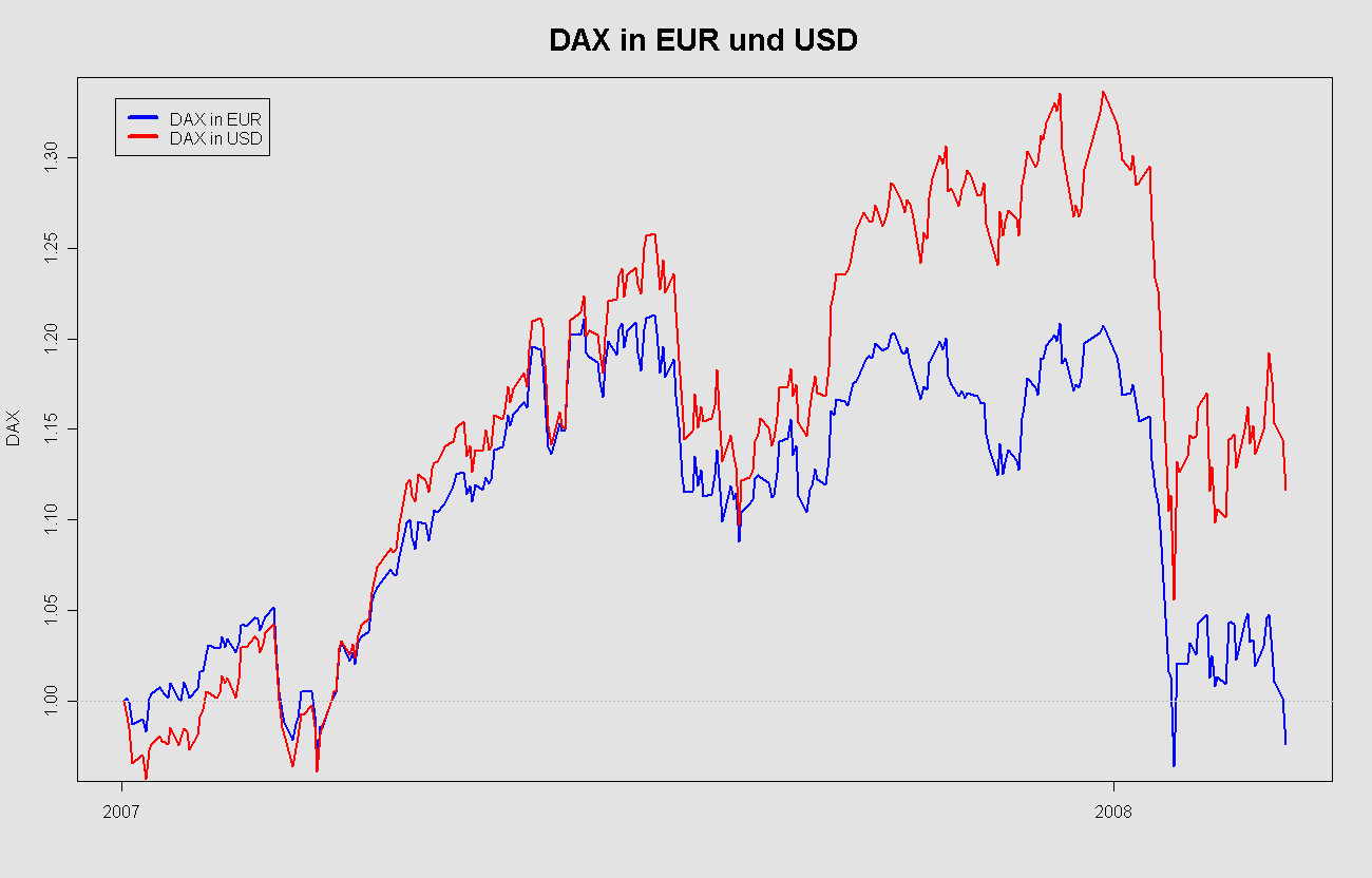 normalized German stock Index DAX in EUR and in USD. It shows the currency risk. While in EUR it looses over the considered period (Jan 07 - march 08), in USD it gains 11%